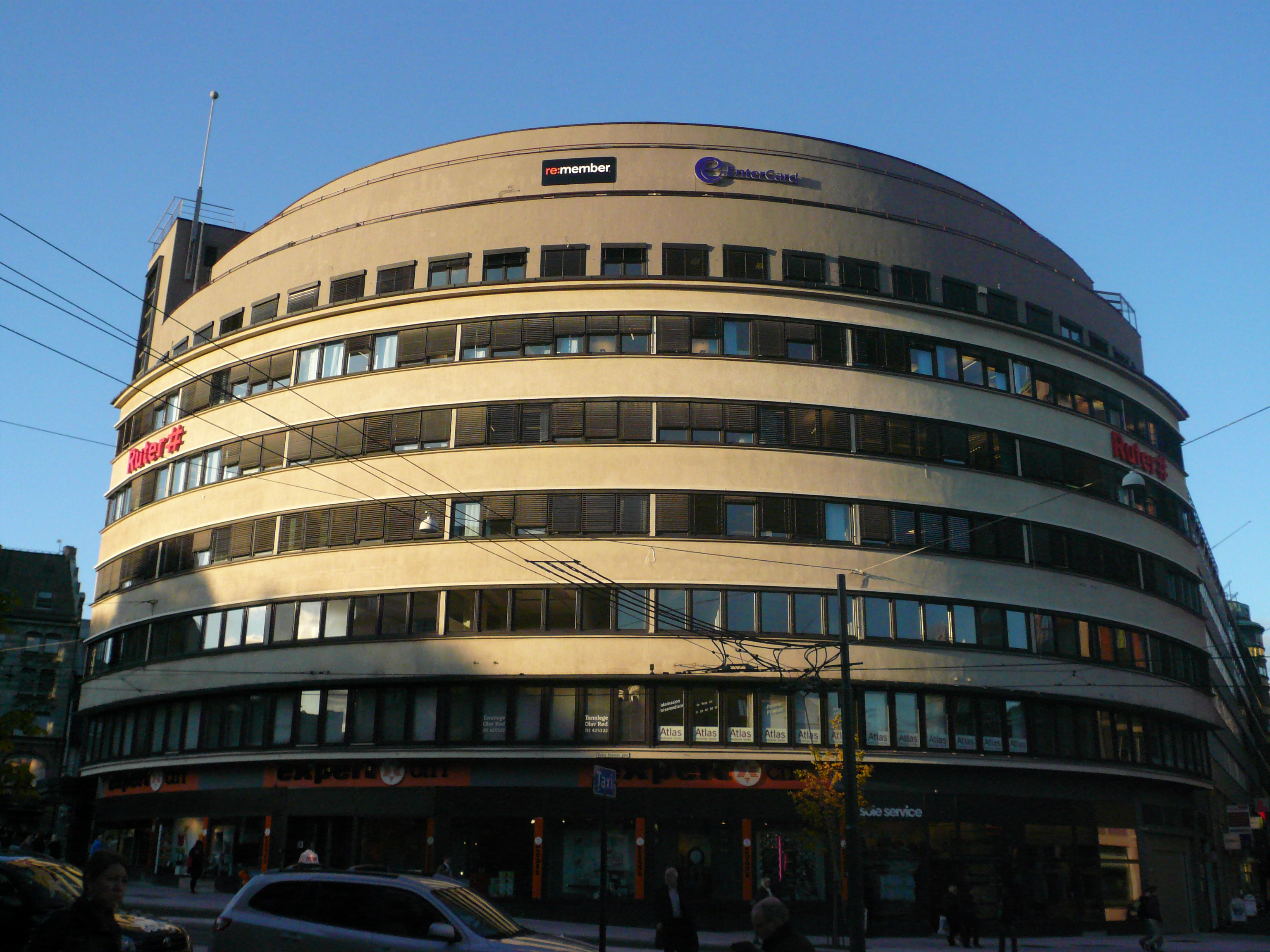 Doblouggården, Dronningensgate 40, Oslo, Norway. Architect Erich Mendelsohn and Rudolf Emanuel Jacobsen, 1933.